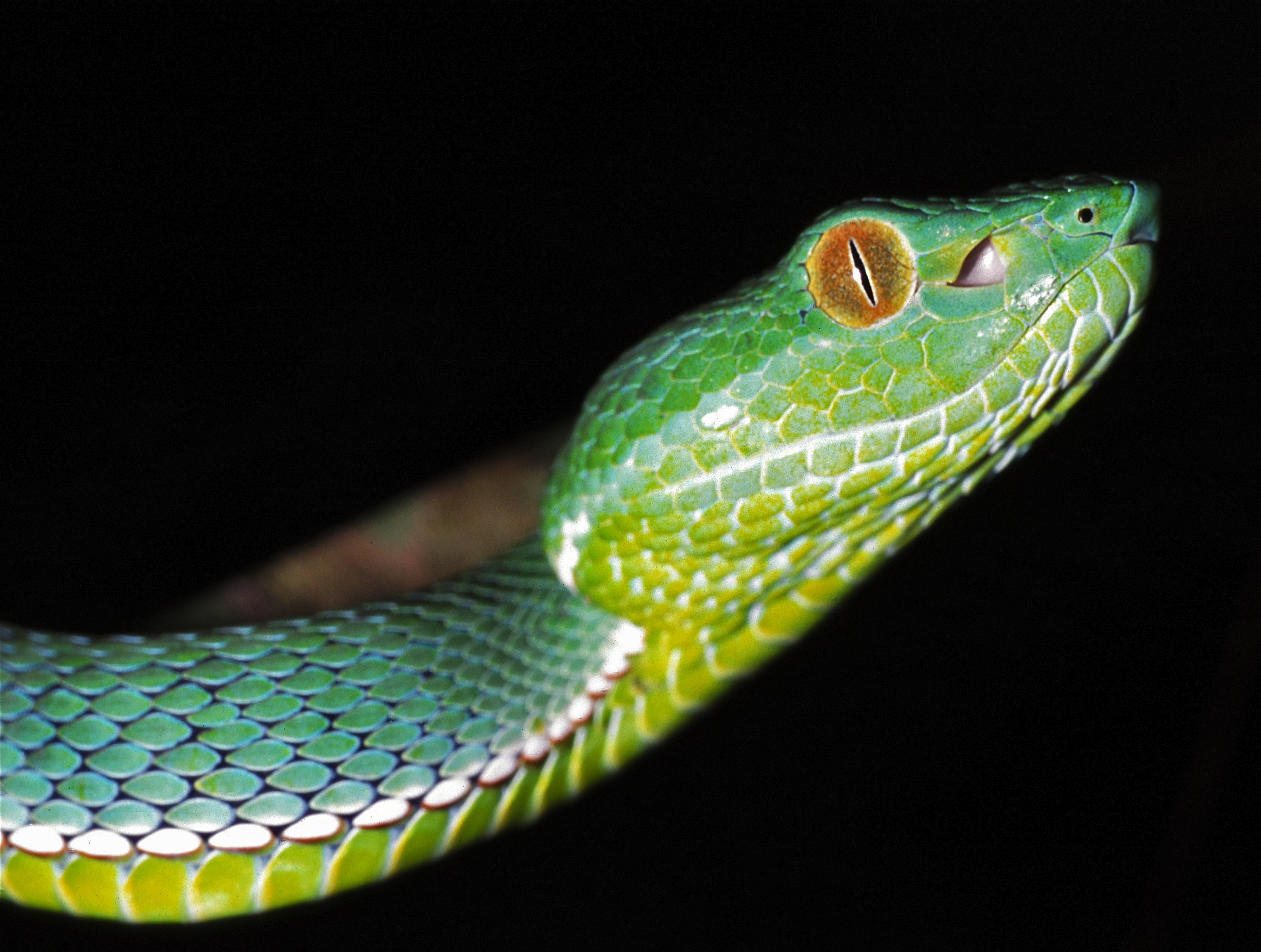 Khao Yai NP, THAILAND Scanned Slide from 2003